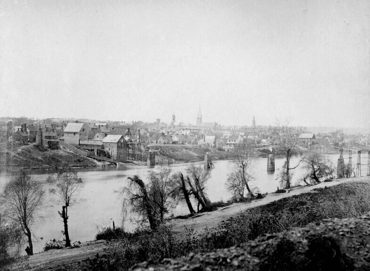 View from across the Rappahannock River in Fredericksburg, Virginia